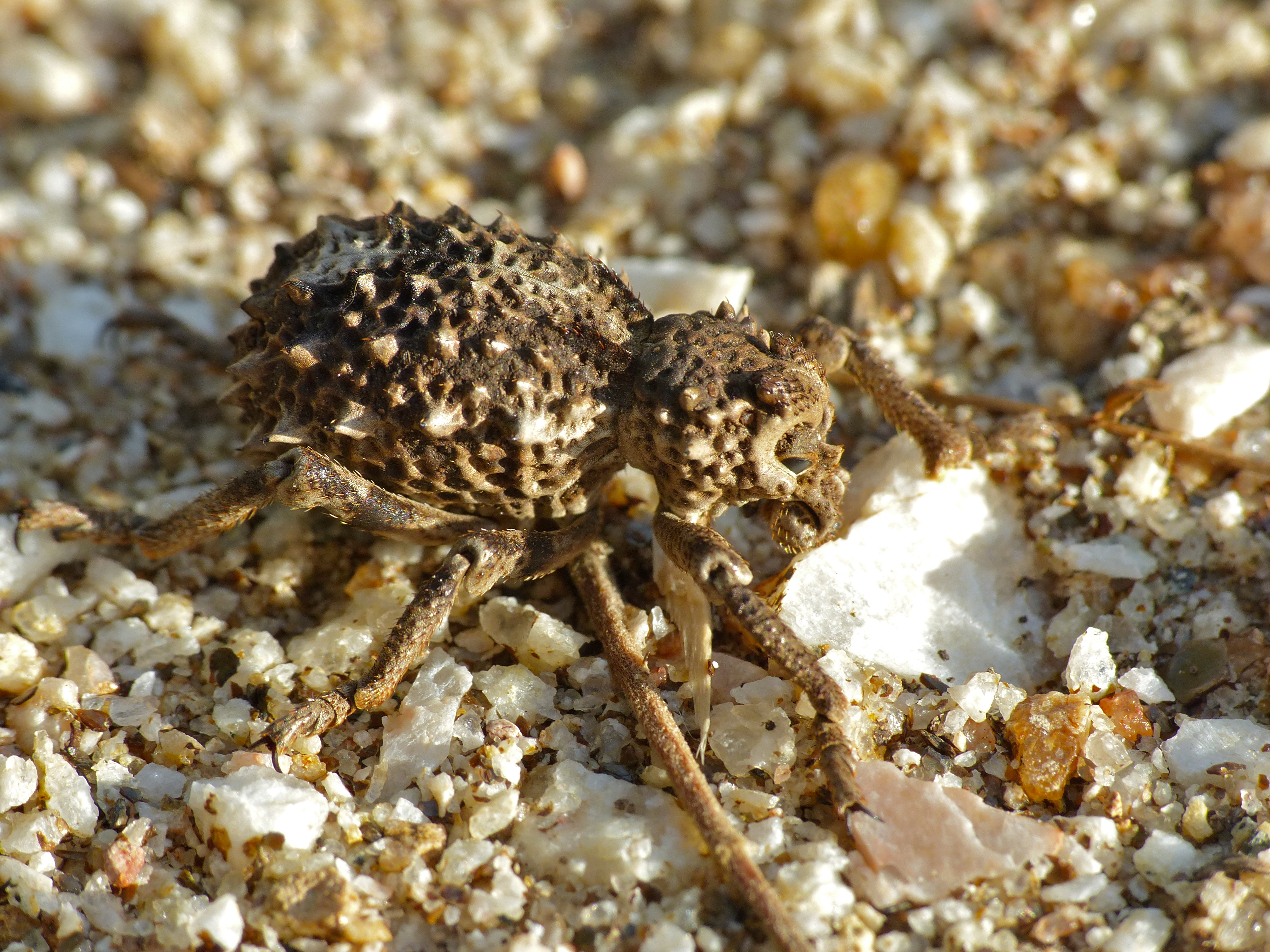 Tamboti Tented Camp, Kruger NP, SOUTH AFRICA